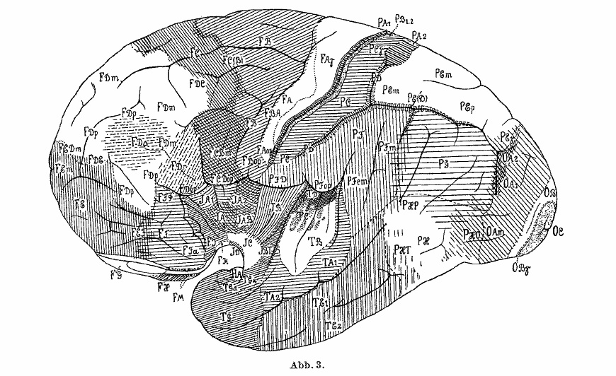 Image from von Economo article about cytoarchitectonics.